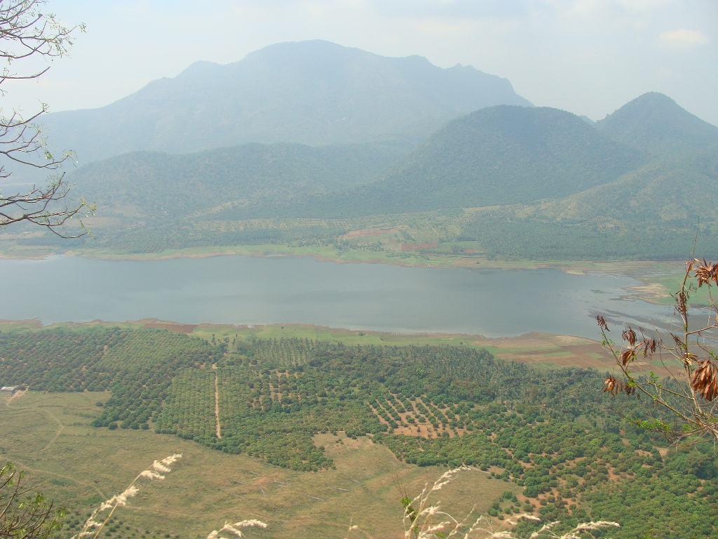 Dam view from Kodai Ghat